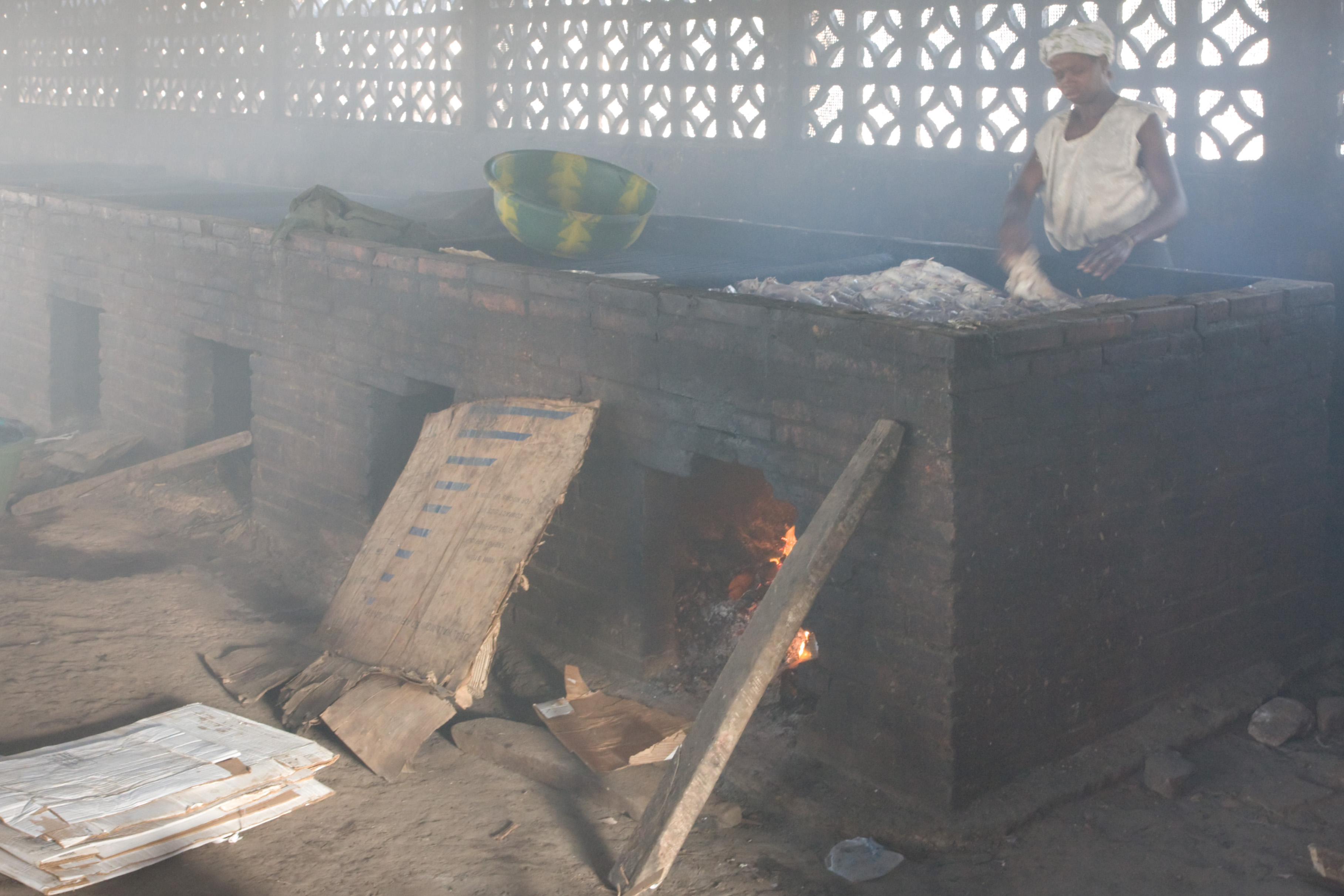 Smoking fish in The Gambia